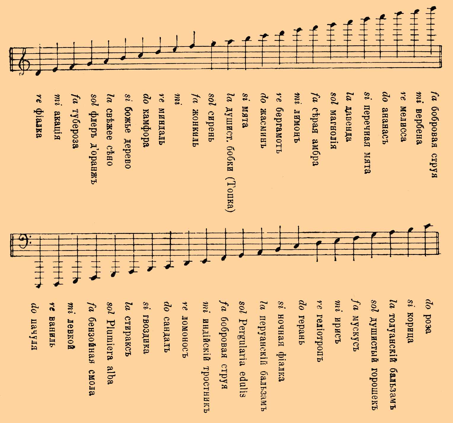 Illustration from Brockhaus and Efron Encyclopedic Dictionary (1890—1907)